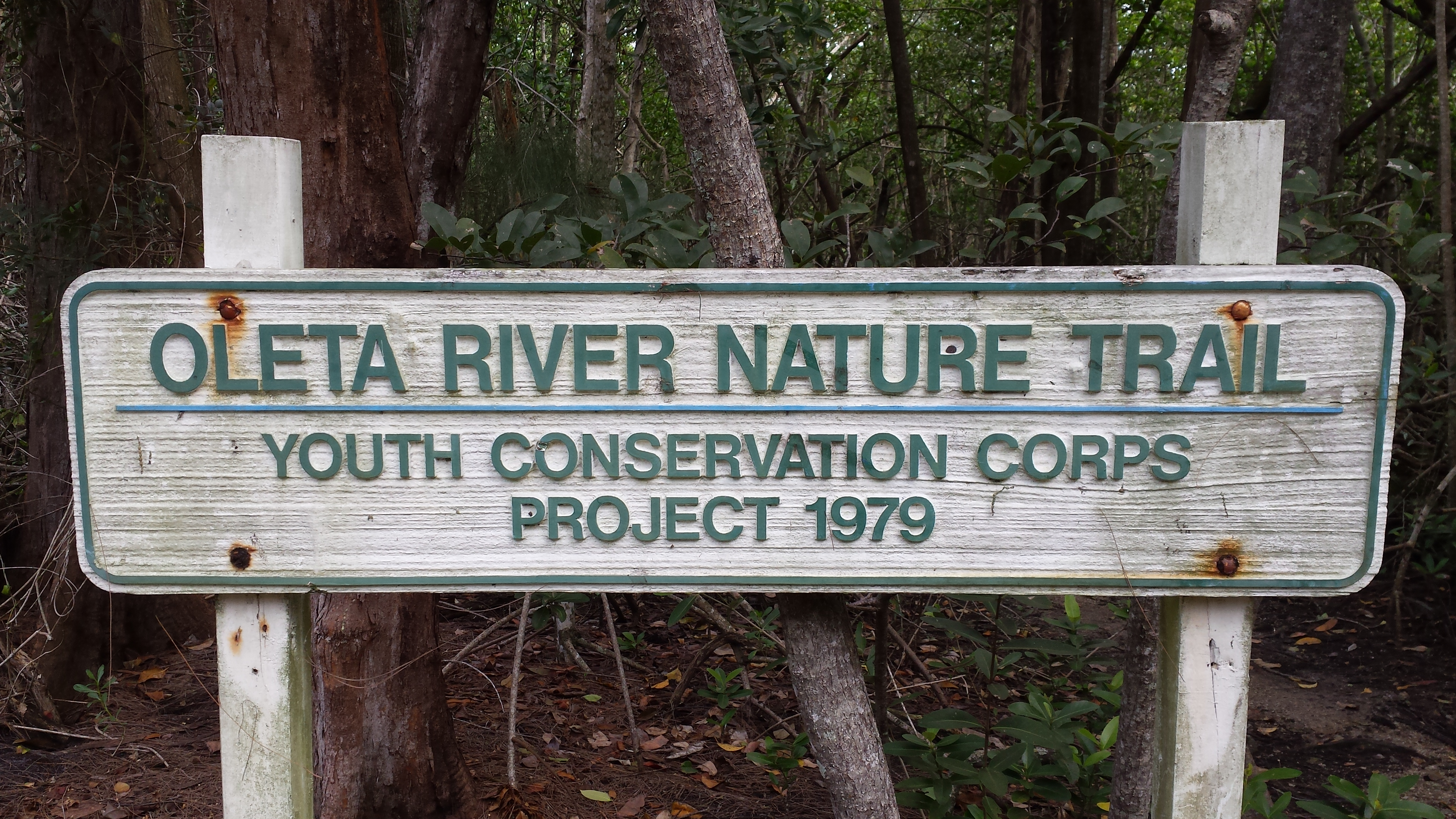 This is the sign at the entrance to the mangrove footbridge located in Greynold's Park.